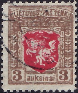 Stamp with Lithuanian horseman on escutcheon ("Second Berlin blazonry drawing") Watermark 1 (network with rounded meshes to left) Nominal amount: 3 Auksinai (lower-case currency inscription) Color: brown / carmine on grey blue paper